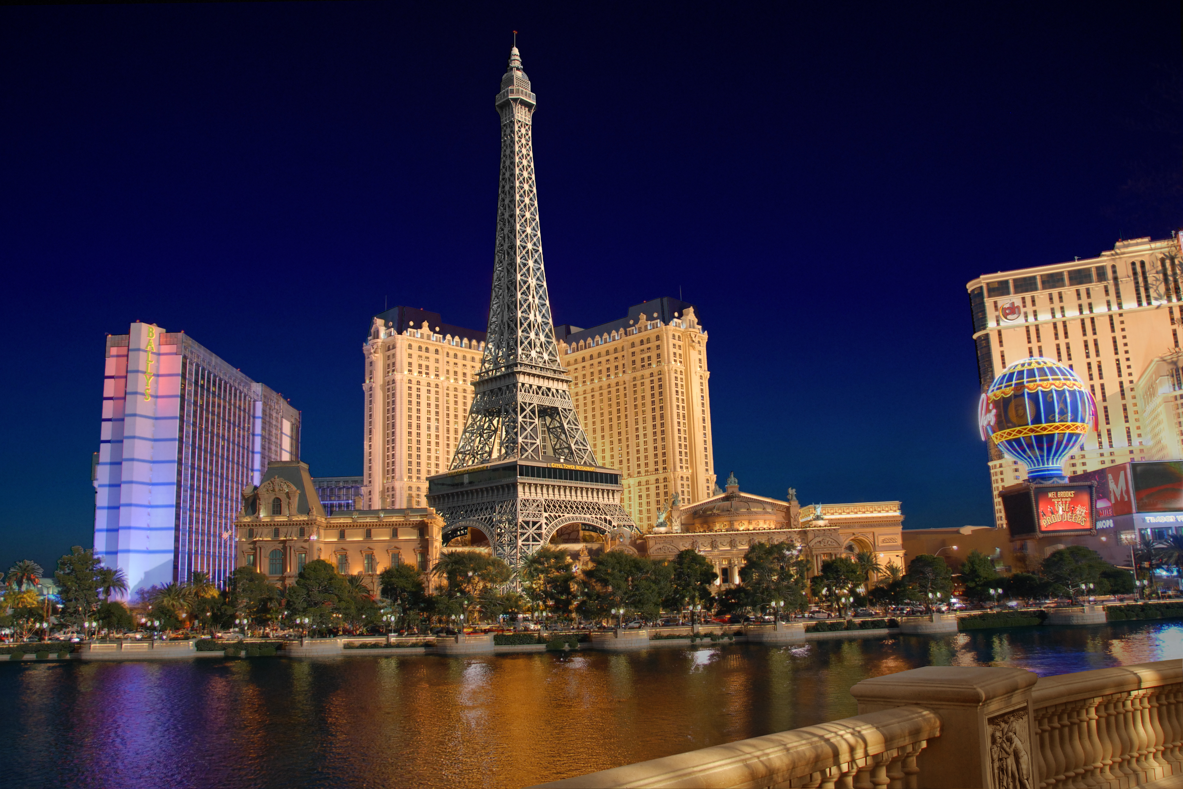 Las Vegas by night